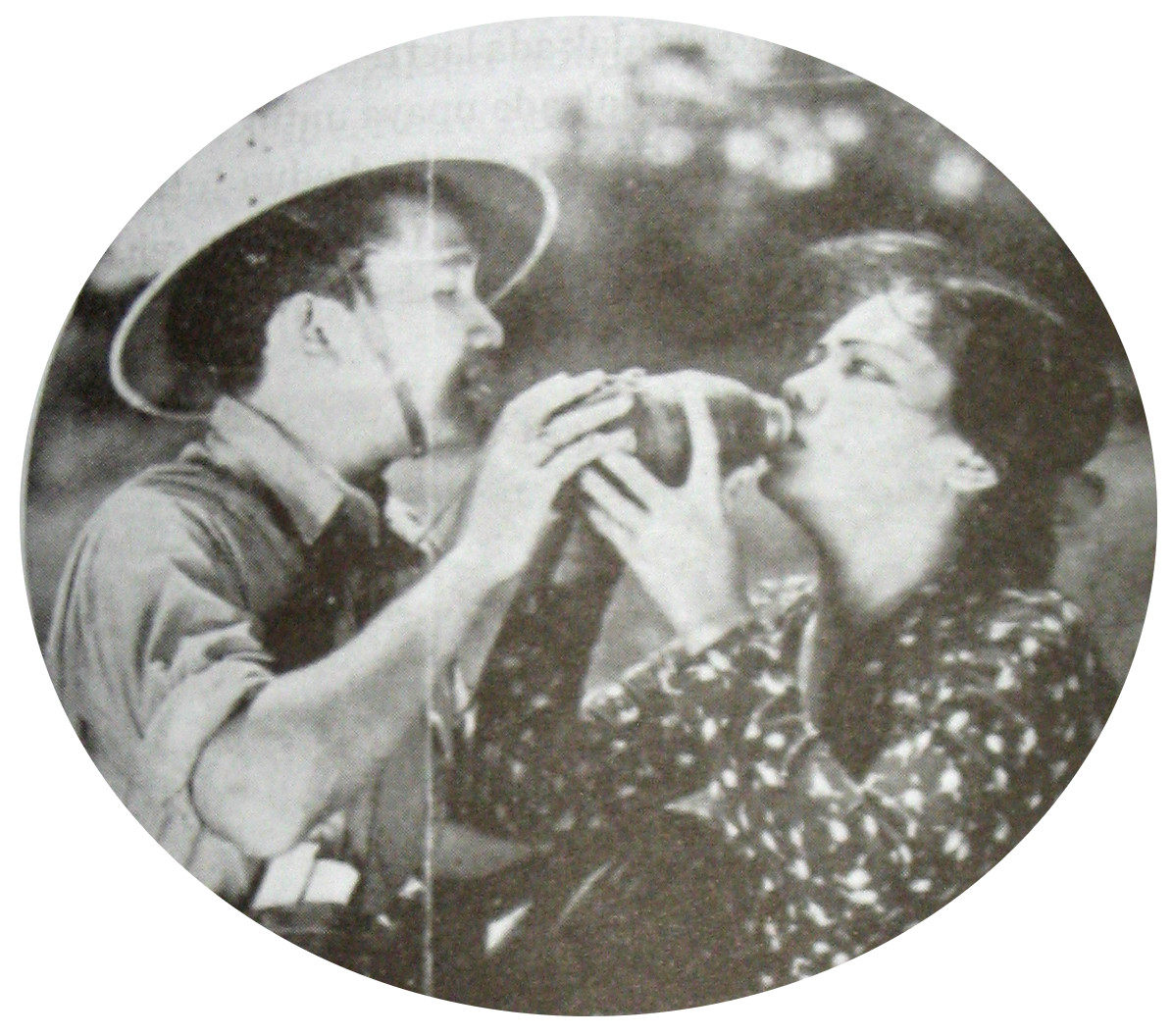 Promotional still of Indonesian actors Djoemala and Roekiah for Roekihati (1940).